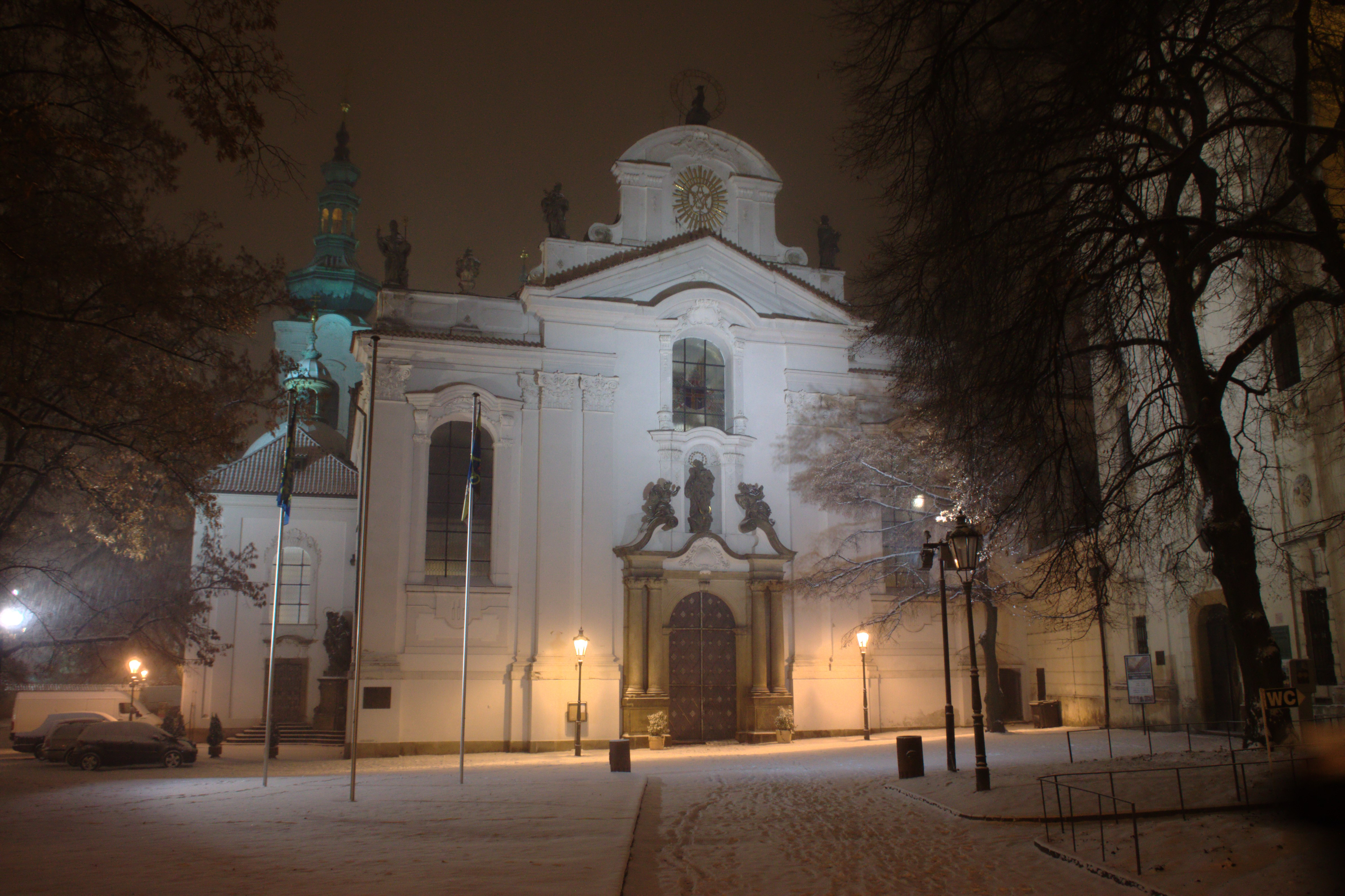 Stahov Monastery in the evening, Prague, CZ